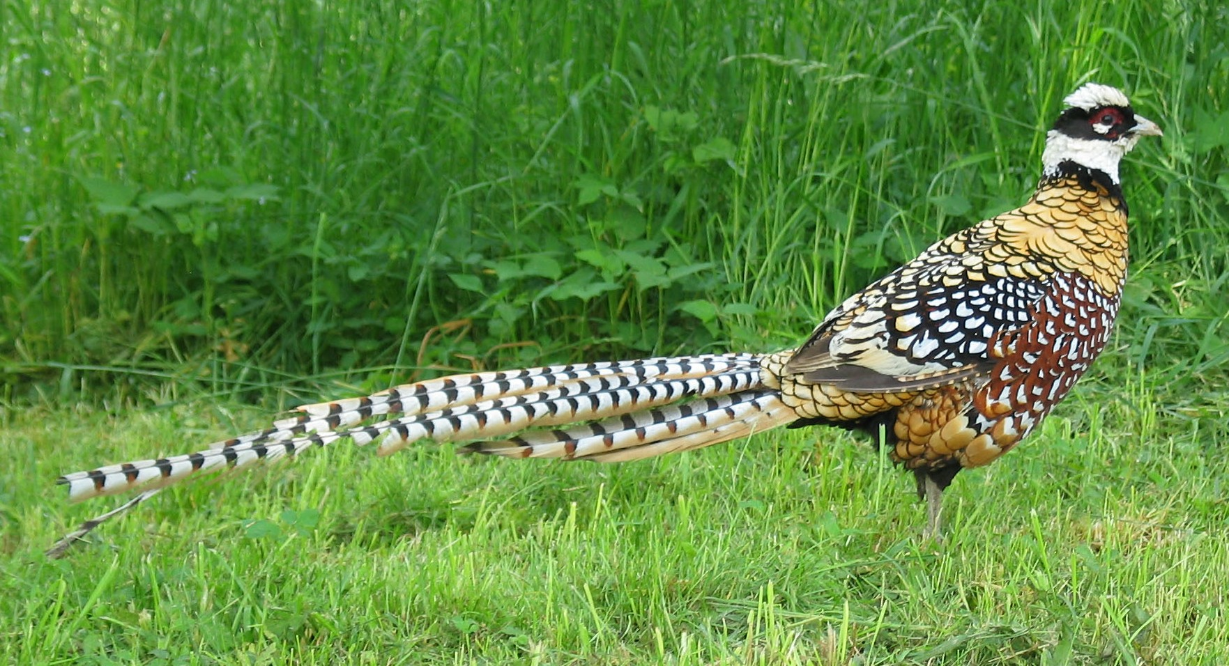 Reeves's Pheasant, picture shot near Scharten, a village Upper Austria.